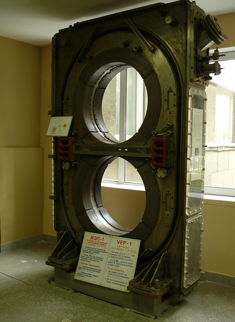 Iron frame and magnet yoke of VEP-1 collider which was in operation during 1964-1968, now standing as the historic exhibit in the BINP, Novosibirsk.